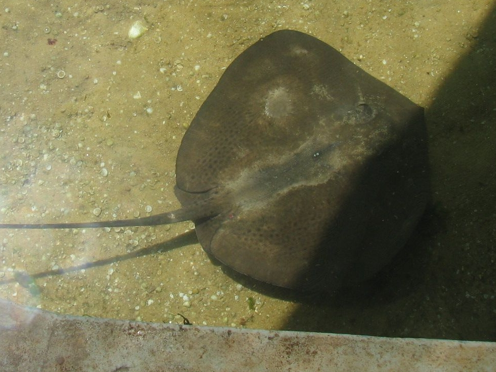 Blackspotted whipray (Himantura astra) in Shark Bay, Australia.